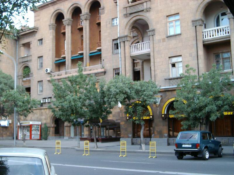 Amiryan street, Yerevan, Armenia.